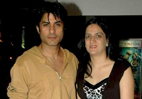 Vikas Bhalla at the screening of film No Problem